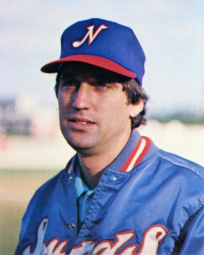 General Manager Farrell Owens of the 1979 Nashville Sounds Minor League Basebal team of the Southern League